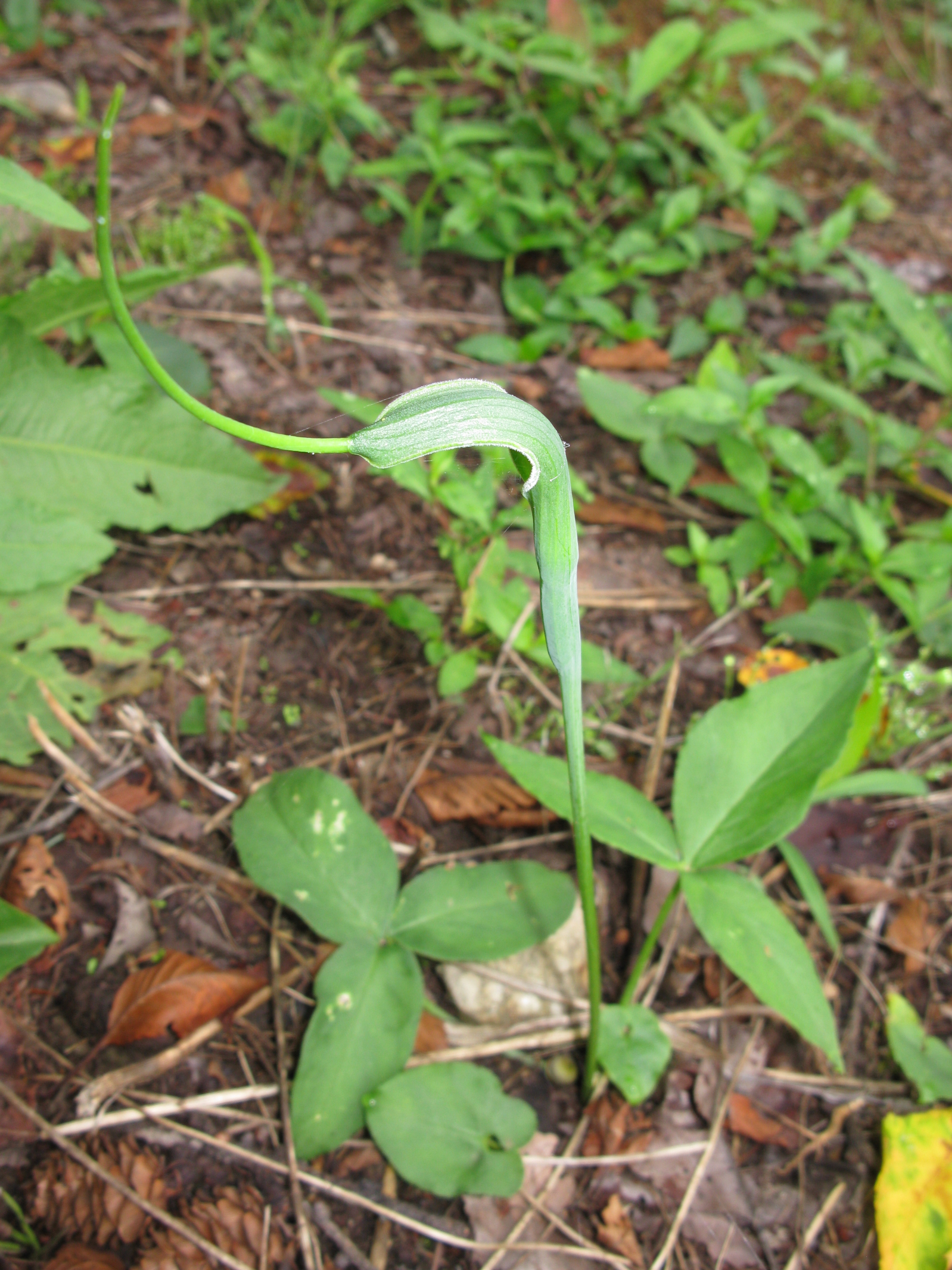 Pinellia ternata, Nagano pref., Japan